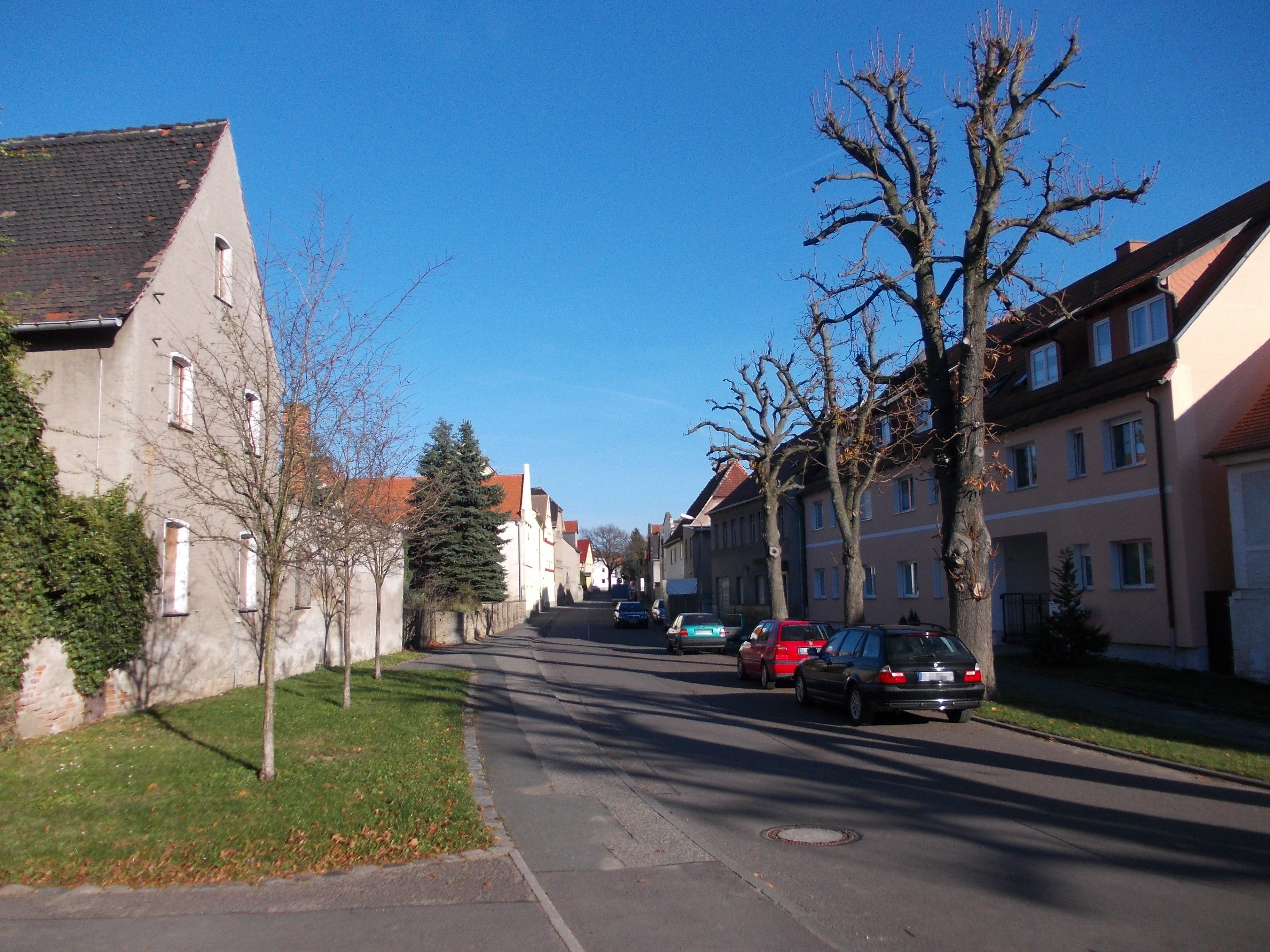 Trebnitzer Dorfstrasse in Trebnitz (Teuchern, district: Burgenlandkreis, Saxony-Anhalt)